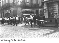 Demonstrations during the Rosariazo